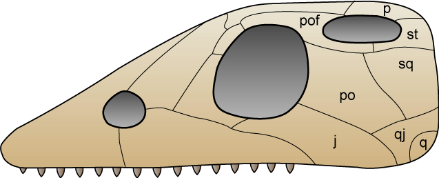 Schematic depiction of parapsid skull (characteristic for ichthyosaurs).